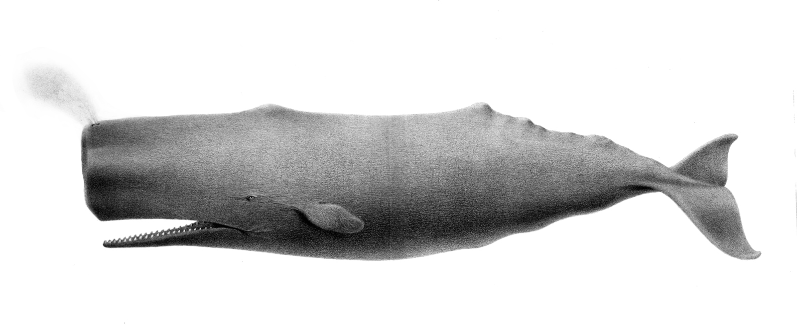 Physeter_macrocephalus